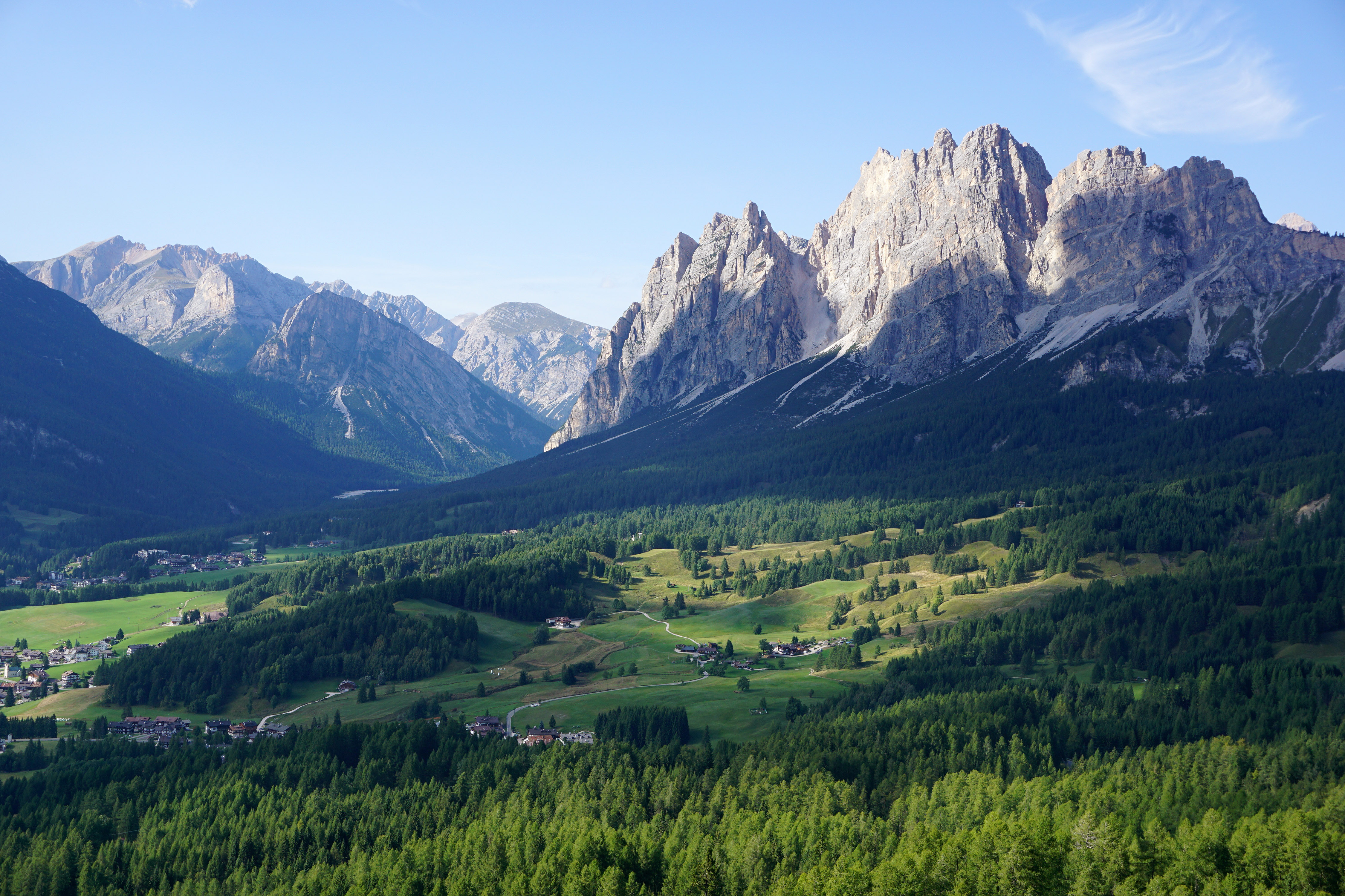 Cianderies and Staulin seen from Faloria cable car in Cortina d'Ampezzo, Italy.